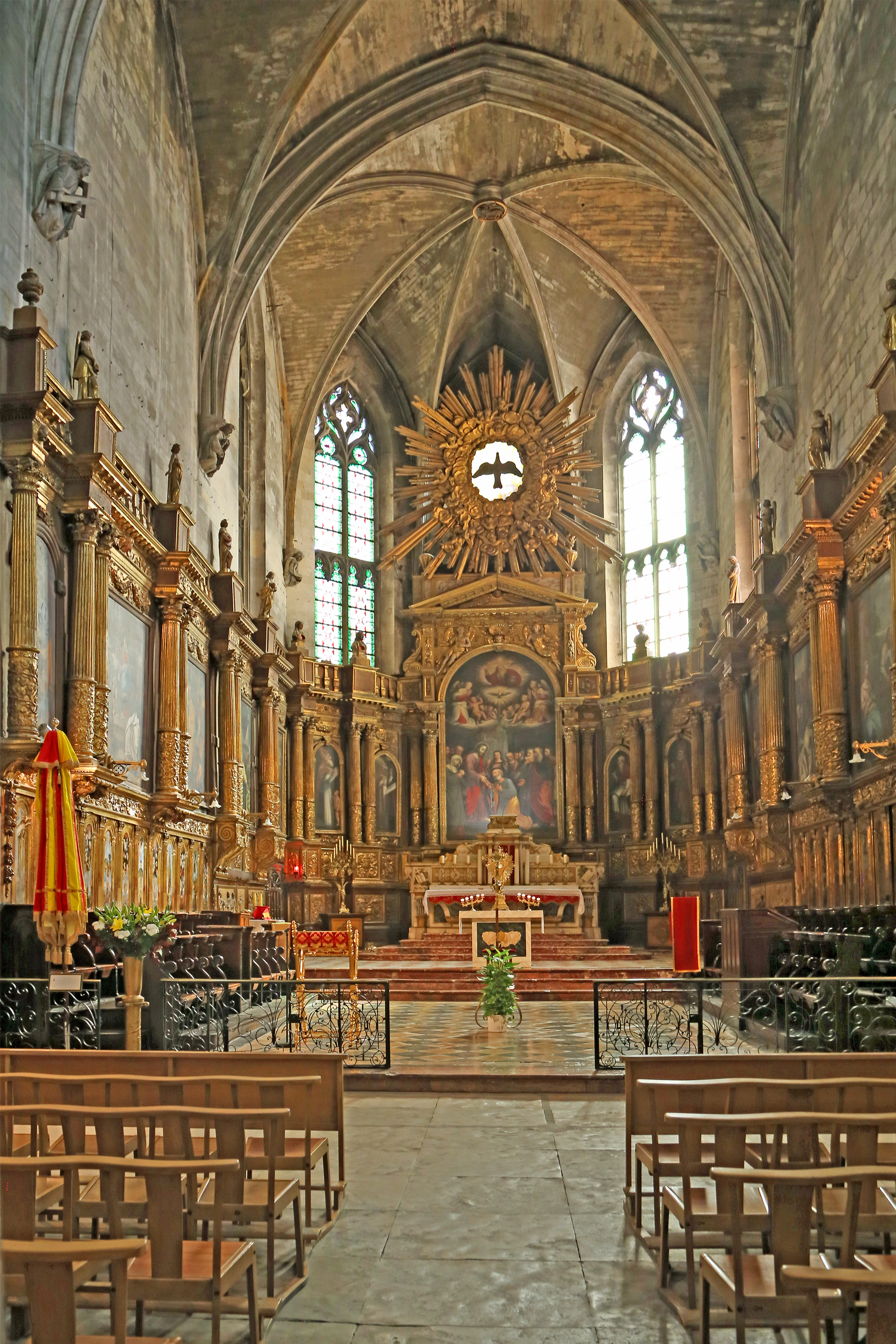 Interior of the Parish church of St-Pierre (Église Saint Pierre), a Gothic church in Avignon on Saint Peter's Square (Place Saint-Pierre). The current church is a reconstruction from 1358.